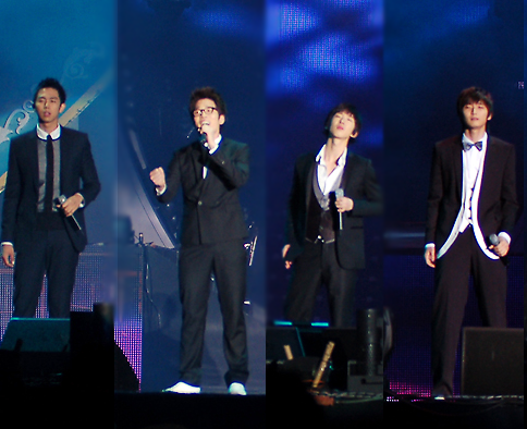 2AM at the 2008 Korea Food Expo opening ceremony. Cropped from Image:2AM-2008_Korea_Food_Expo_05.jpg